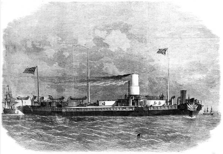 Plate from the Illustrated London News (Vol 64/1 p 480). HMS Royal Sovereign, an iron-clad warship with turret-mounted guns